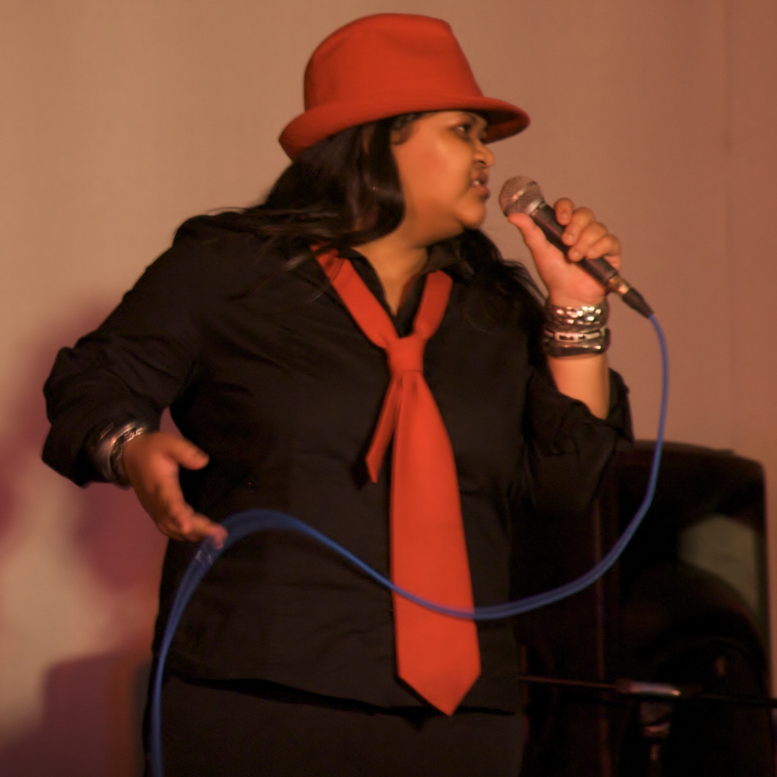 Photograph (Cropped) of Sri Lankan R&B / Hip-Hop music artist,Ashanthi De Alwis (අශාන්ති ද අල්විස්)